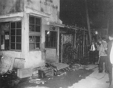 Iwanosaka-Koban Incident